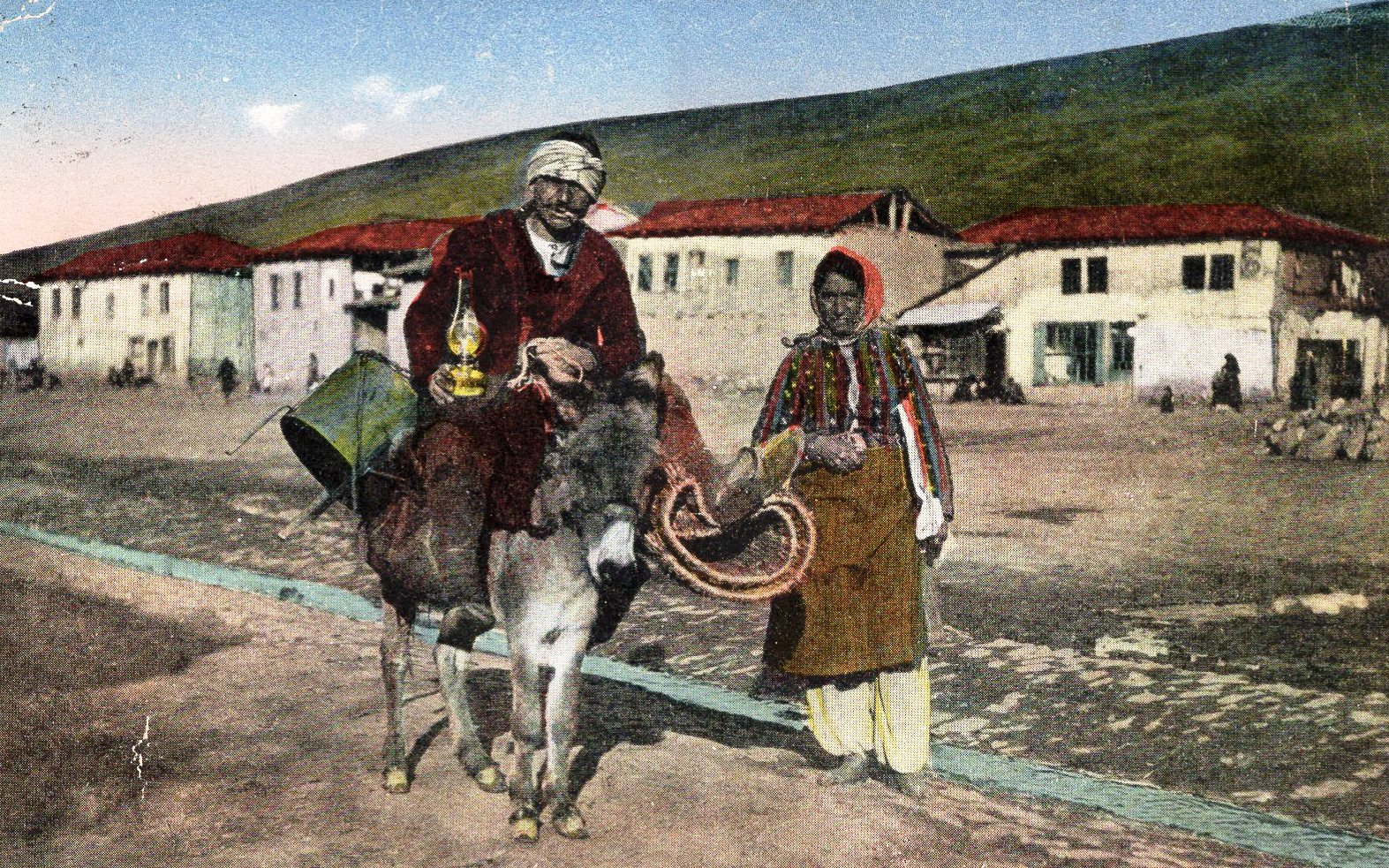 Postcard of Skopje, migration of Gypsies from 1931 This media file is produced by Wikipedian in Residence in Category:Wikipedian in Residence at DARM in 2016.